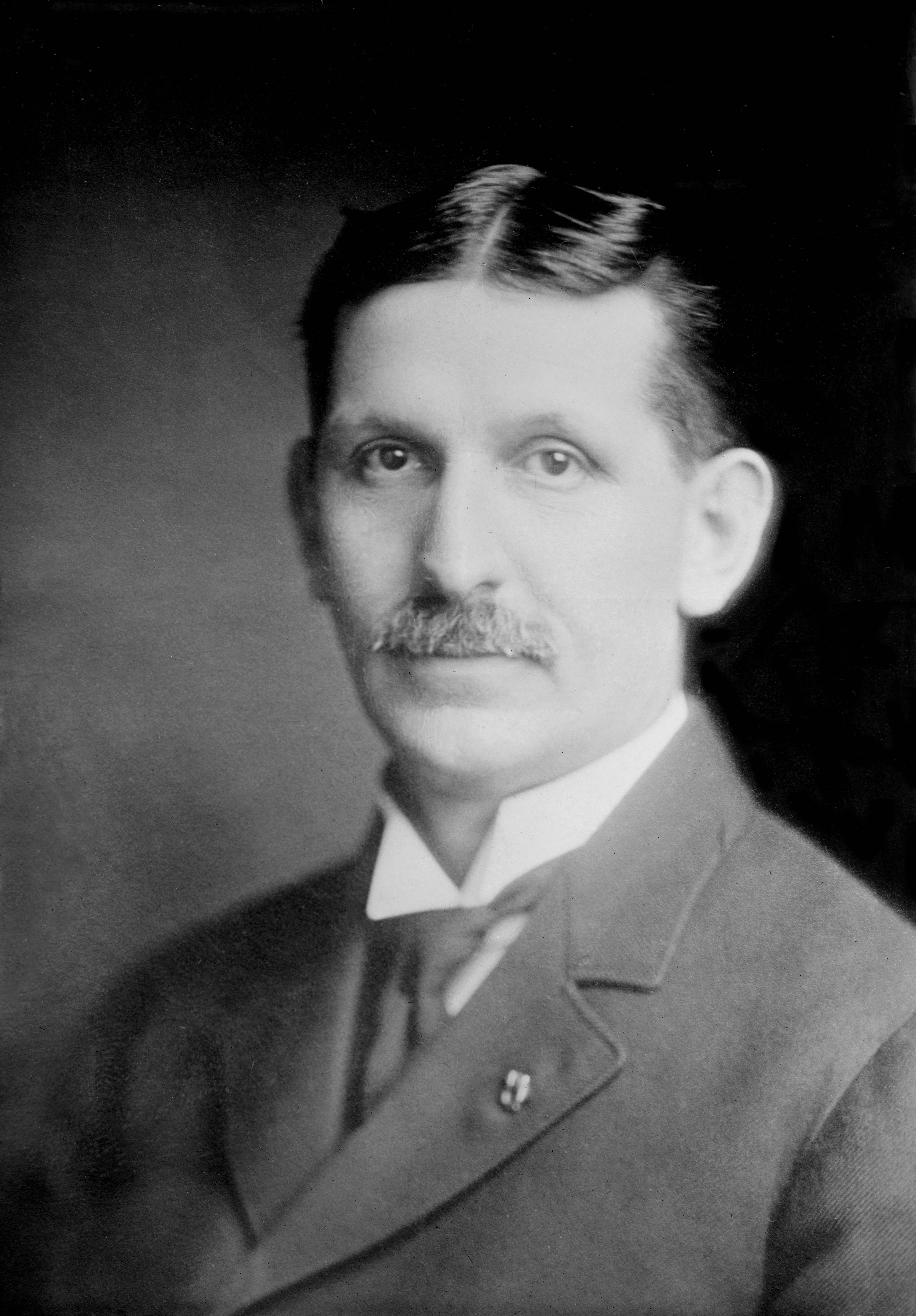 Bain News Service,, publisher. Dr. Levitt Ellsworth Custer circa 1912 [no date recorded on caption card] 1 negative : glass ; 5 x 7 in. or smaller. Notes: Title from unverified data provided by the Bain News Service on the negatives or caption cards. Forms part of: George Grantham Bain Collection (Library of Congress). Format: Glass negatives. Repository: Library of Congress, Prints and Photographs Division, Washington, D.C. 20540 USA, General information about the Bain Collection is available at Persistent URL: Call Number: LC-B2- 2769-8